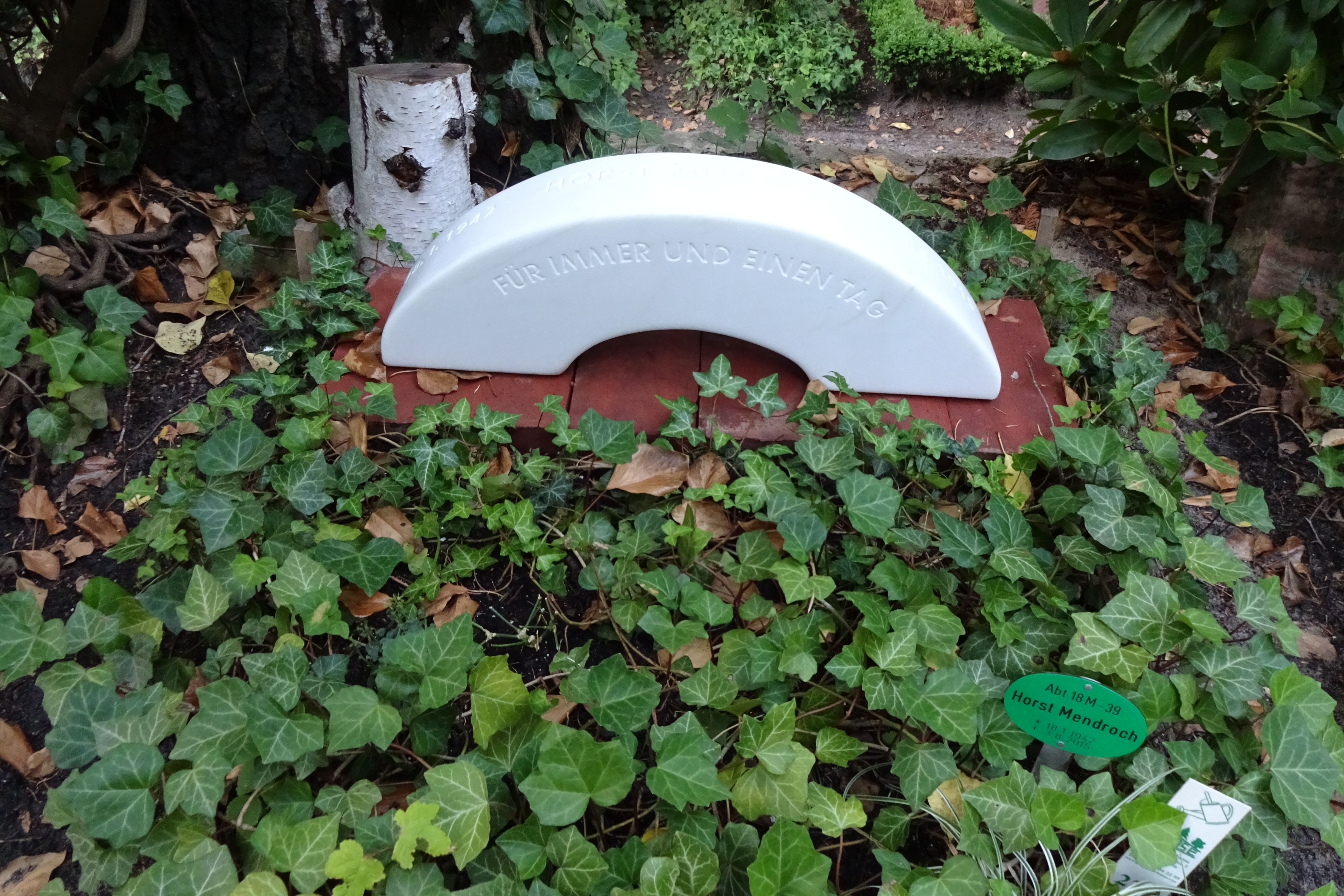 Grave of German actor Horst Mendroch at Friedhof Heerstraße in Berlin-Westend